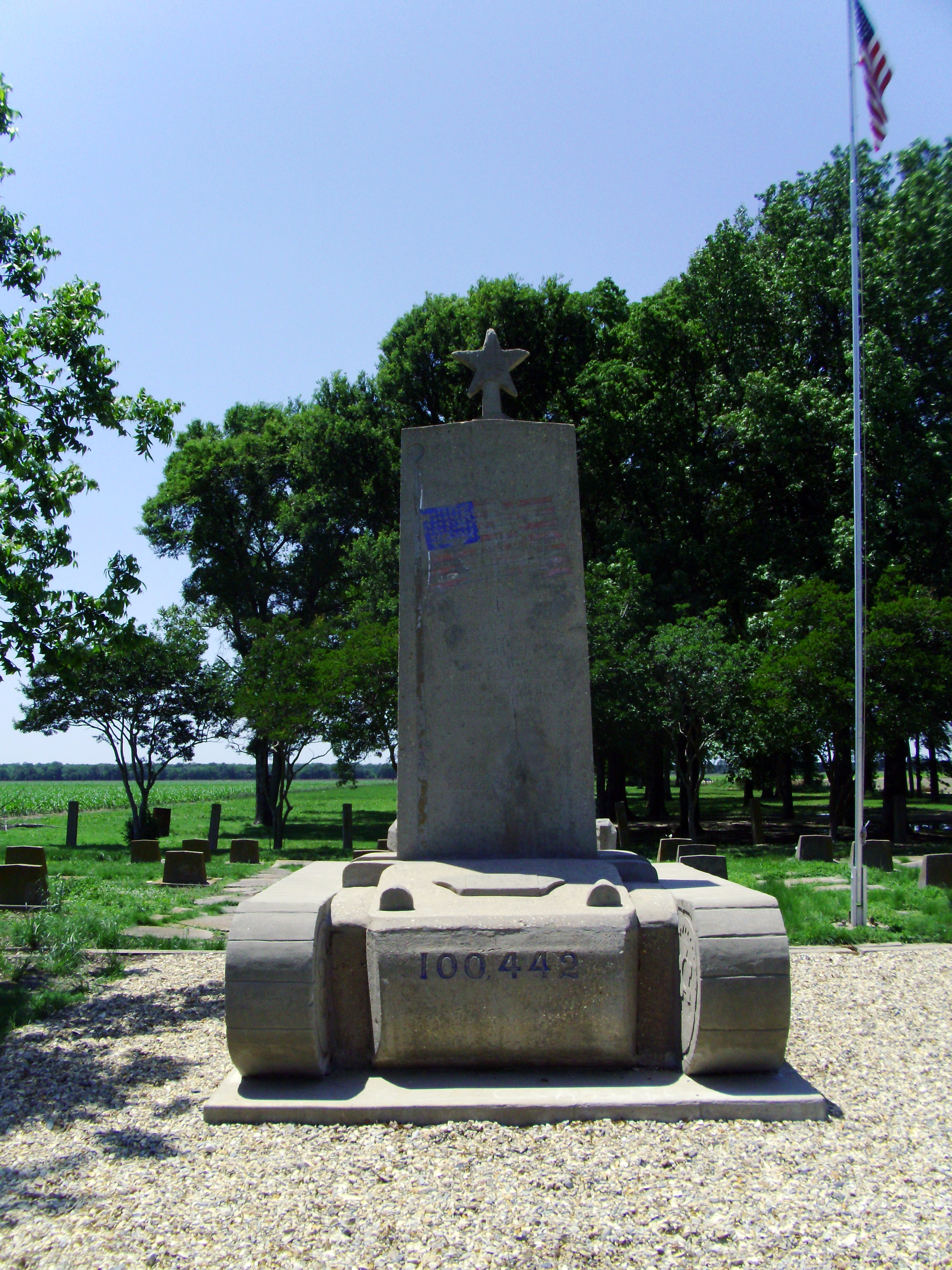 Rohwer War Relocation Center in Rowher, Desha County, AR